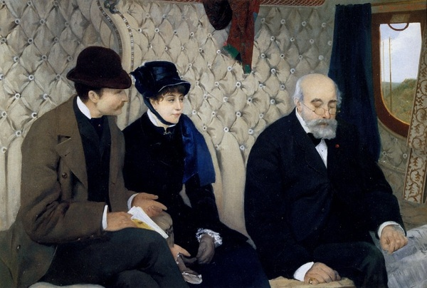 Le Depart En Voyage De Noces (right: selfportrait Carrier-Belleuse)